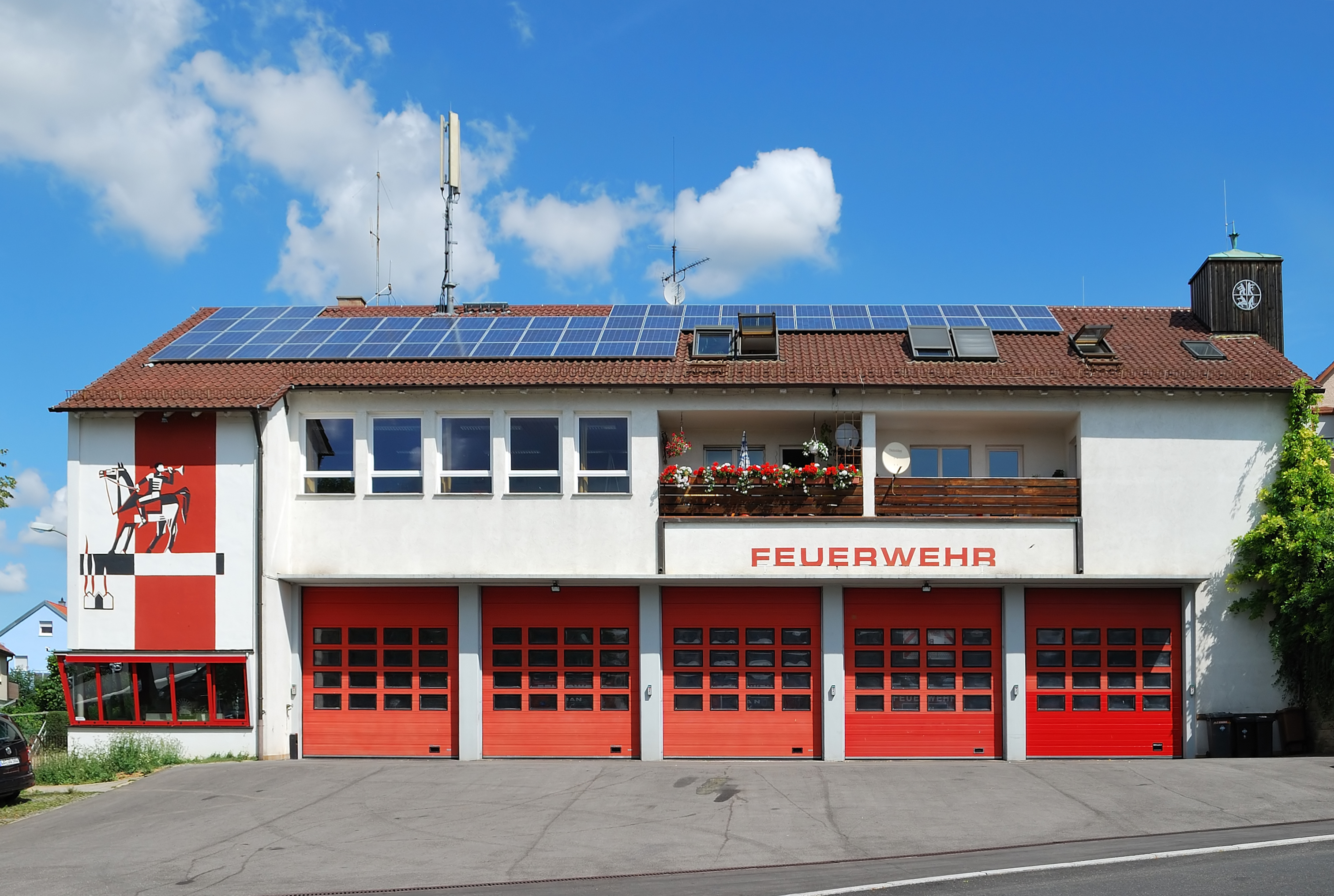 Fire station in Ditzingen, Baden-Württemberg, Germany.